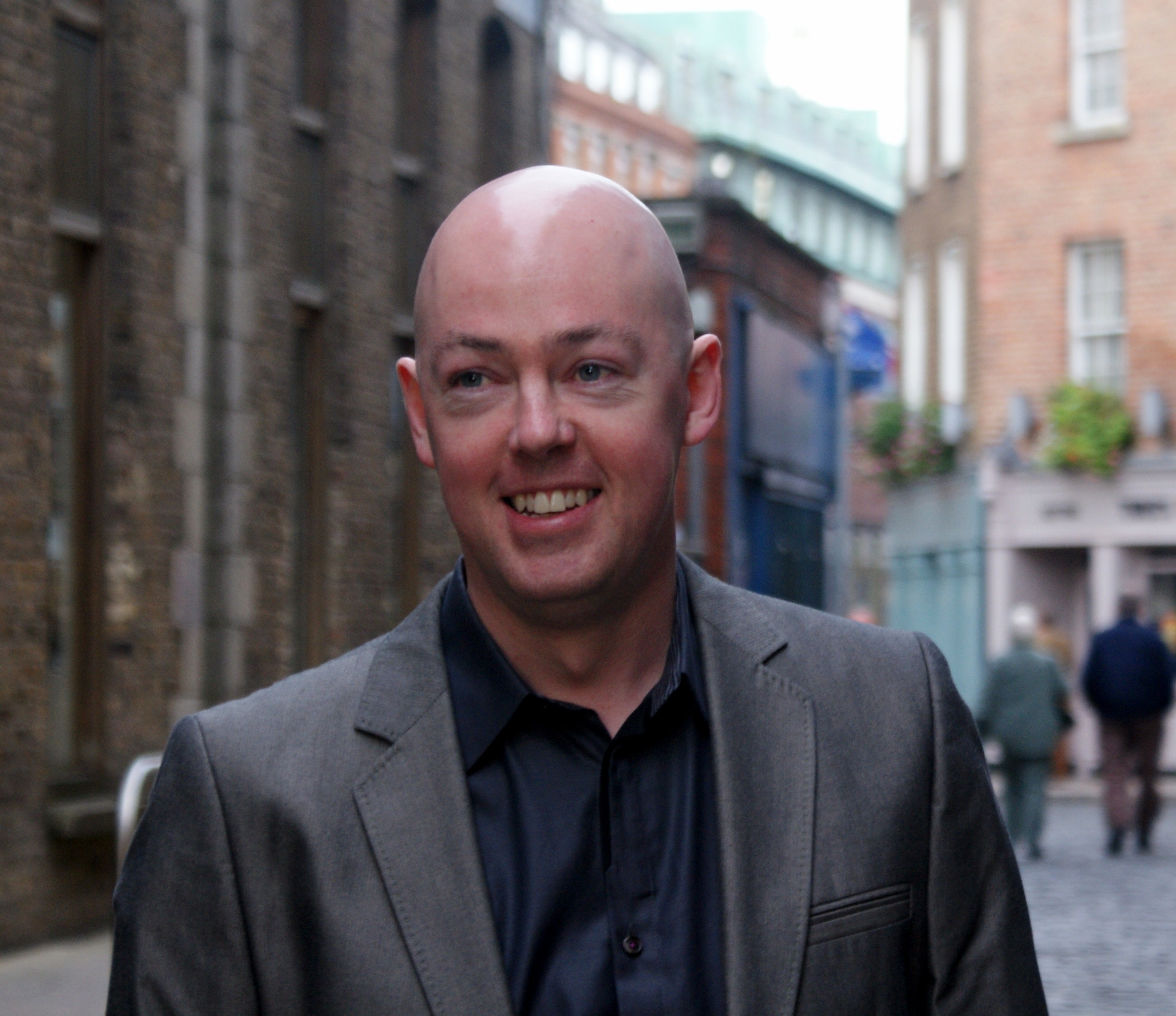 Photograph of author John Boyne taken in Dublin October 2010